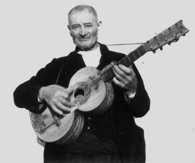 A Banza, twelve string Portuguese viuhela with two short strings. Mbanza is a string african instrument that has been built after the Portuguese Banza. Banza is quit similar to Banjo.